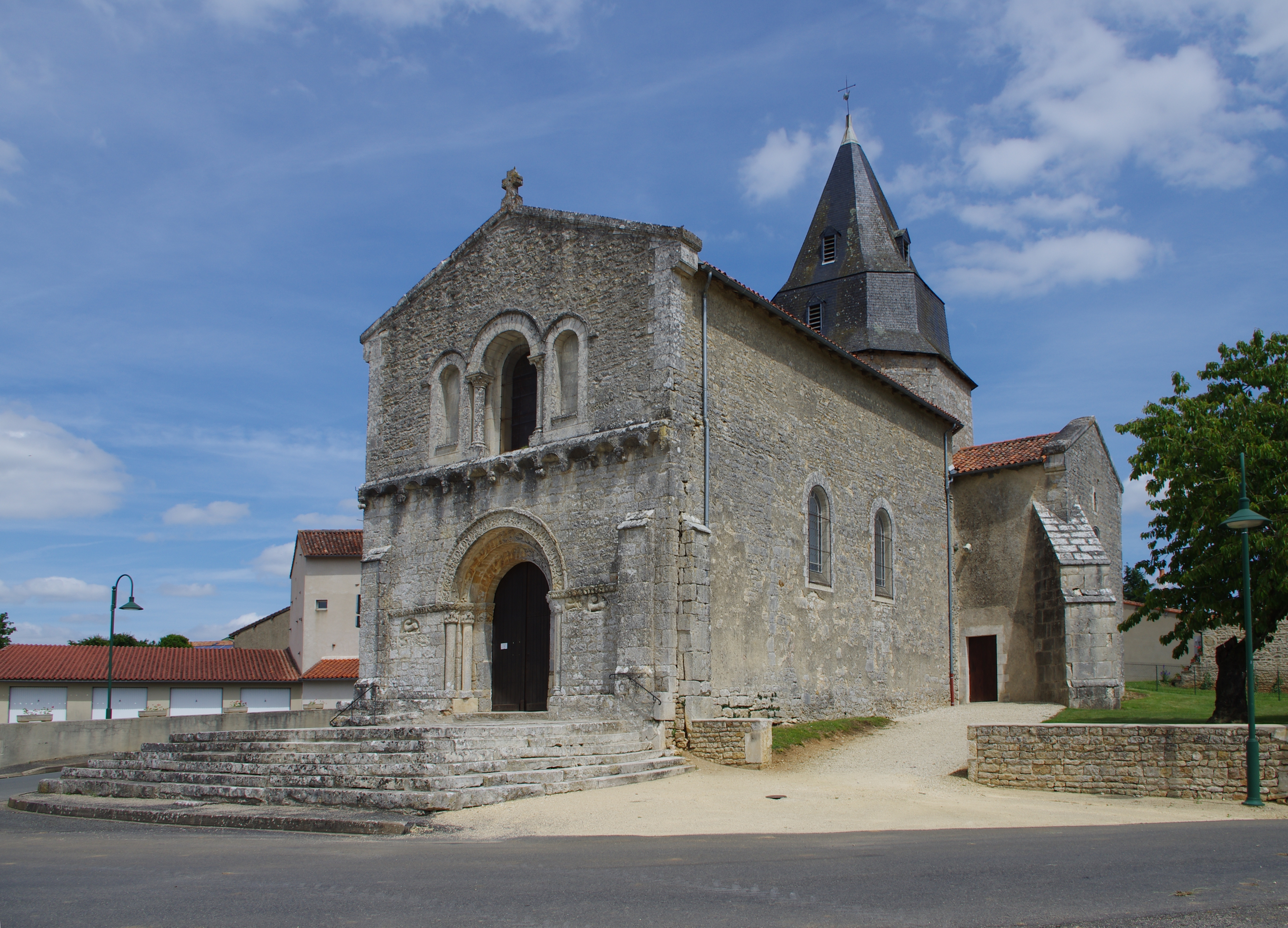 Romanesque church built in the XIIth century and restored in the XVIIIth and XIXth. Genouillé, Vienne, France .